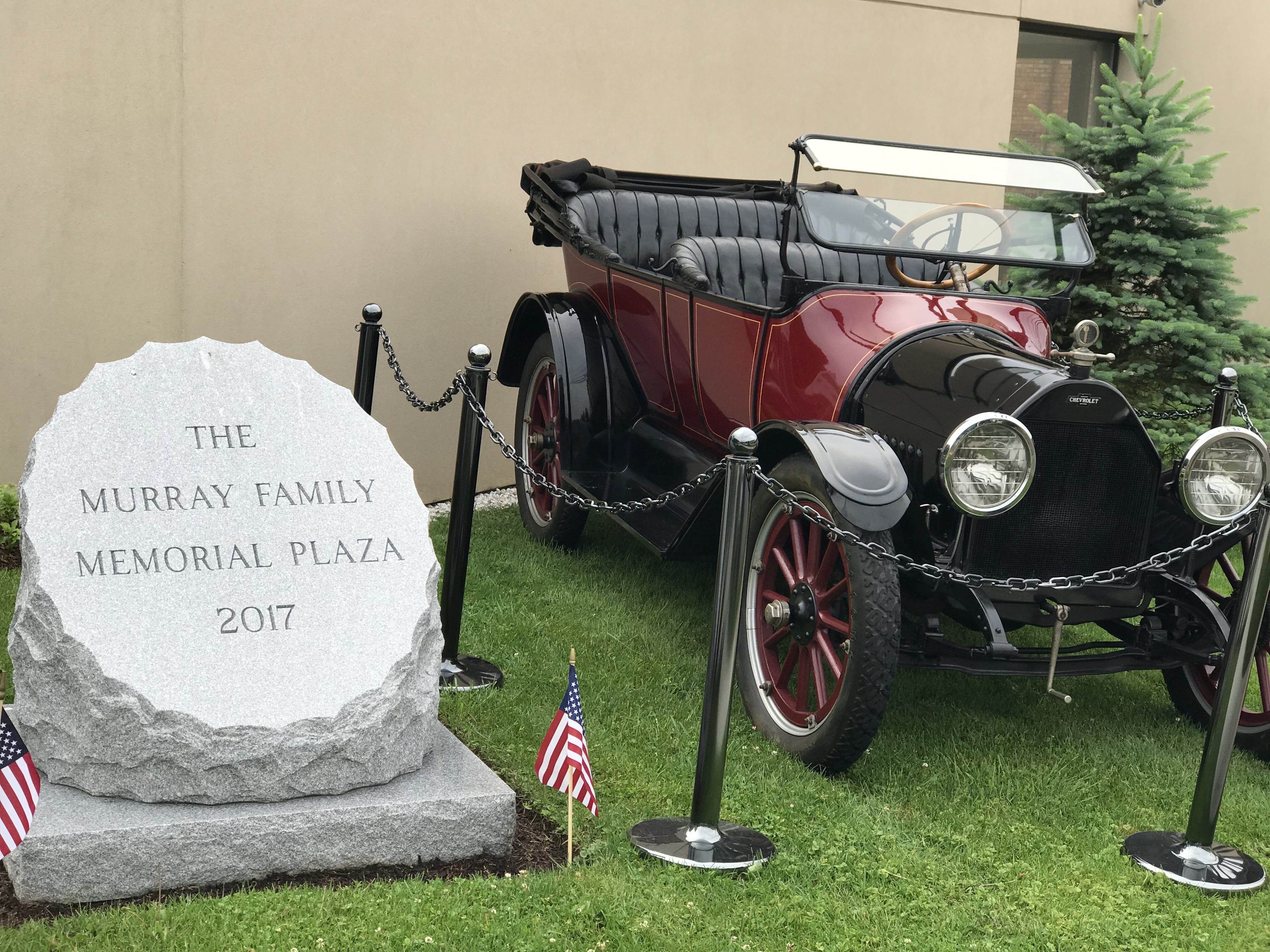 The murray Family Memorial Plazza Monument in Bethesda, Oh